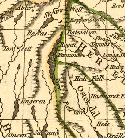 Section of Anville's Nordic map from 1758 showing Lake Femund on Norwegian-Swedish border